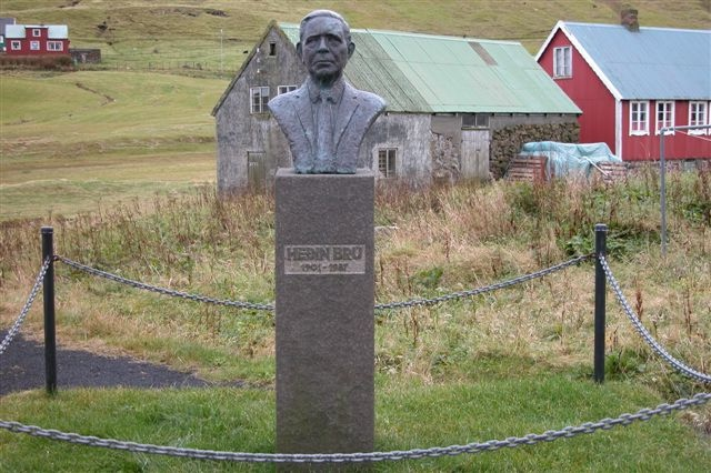 Memorial for the famous Faroese writer Heðin Brú in his birthplace Skálavík, Faroe Islands